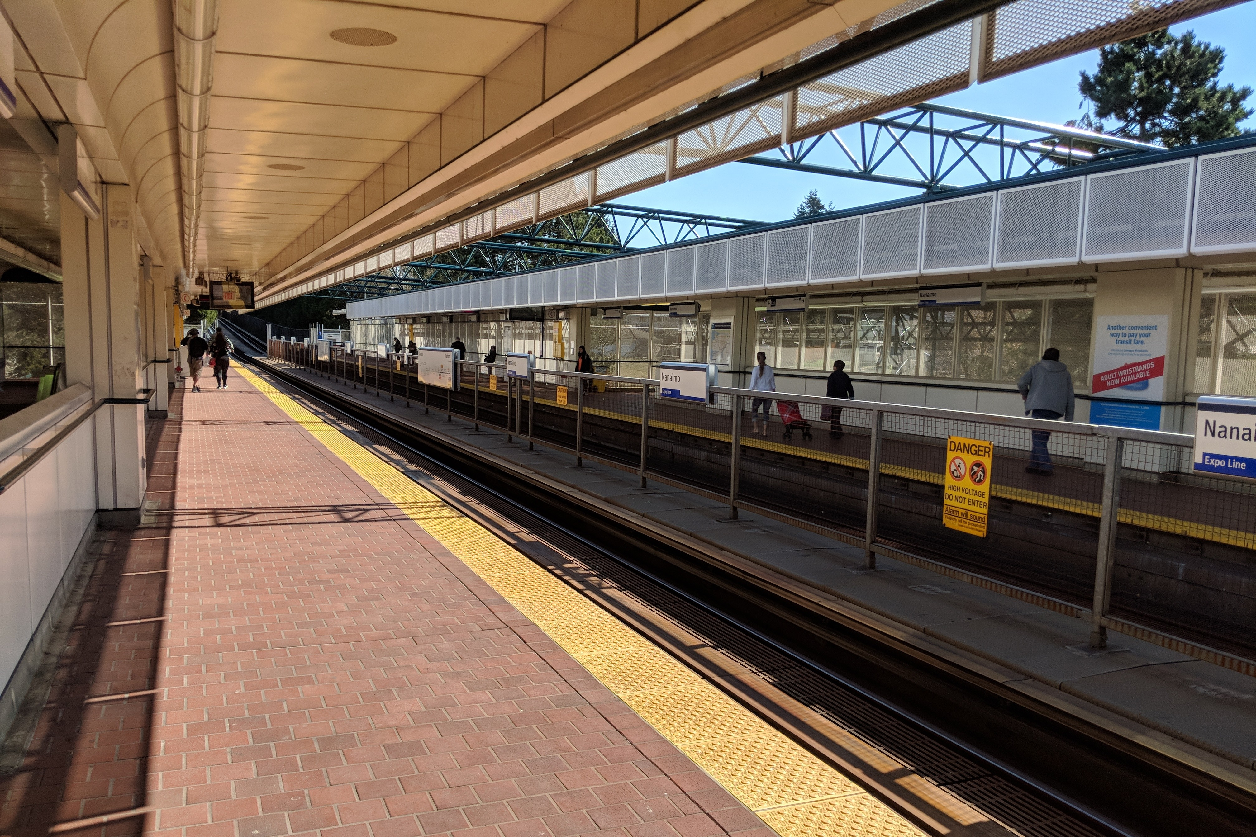 Platform level at Nanaimo station in March 2019.